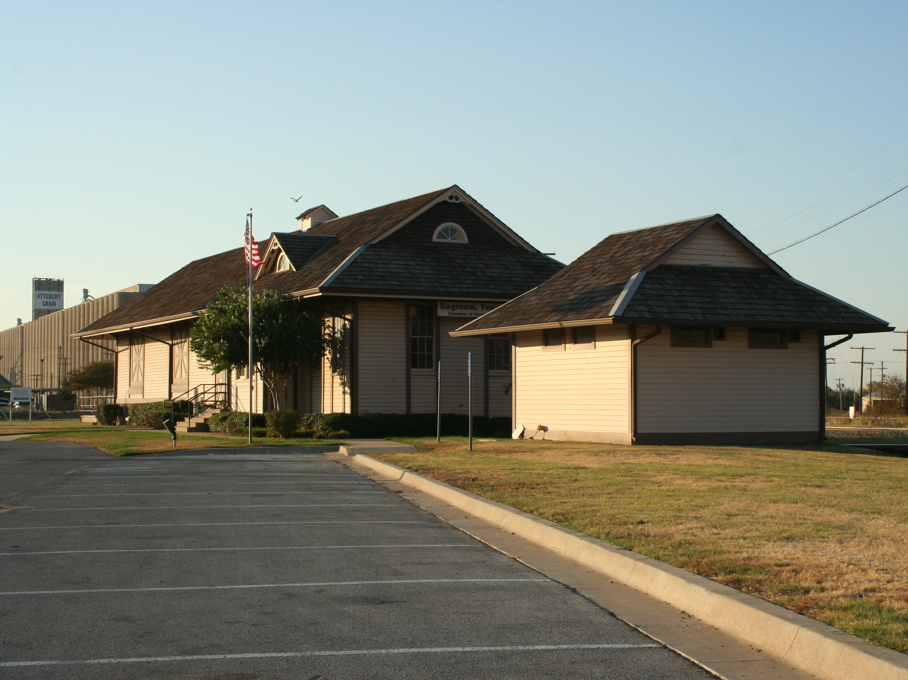 Saginaw, Texas, Chamber of Commerce